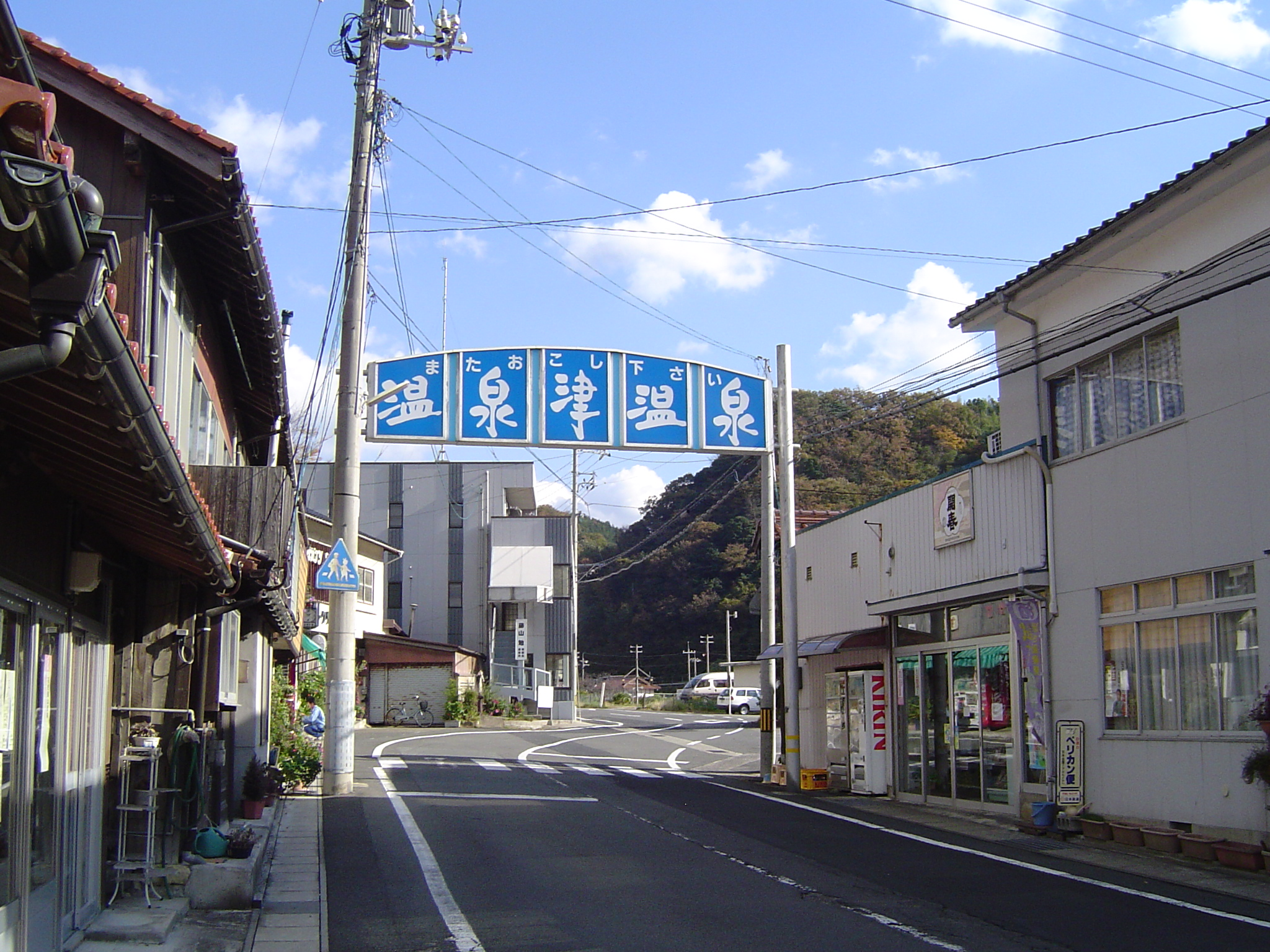 Yunotsu Onsen in Shimane, Japan.